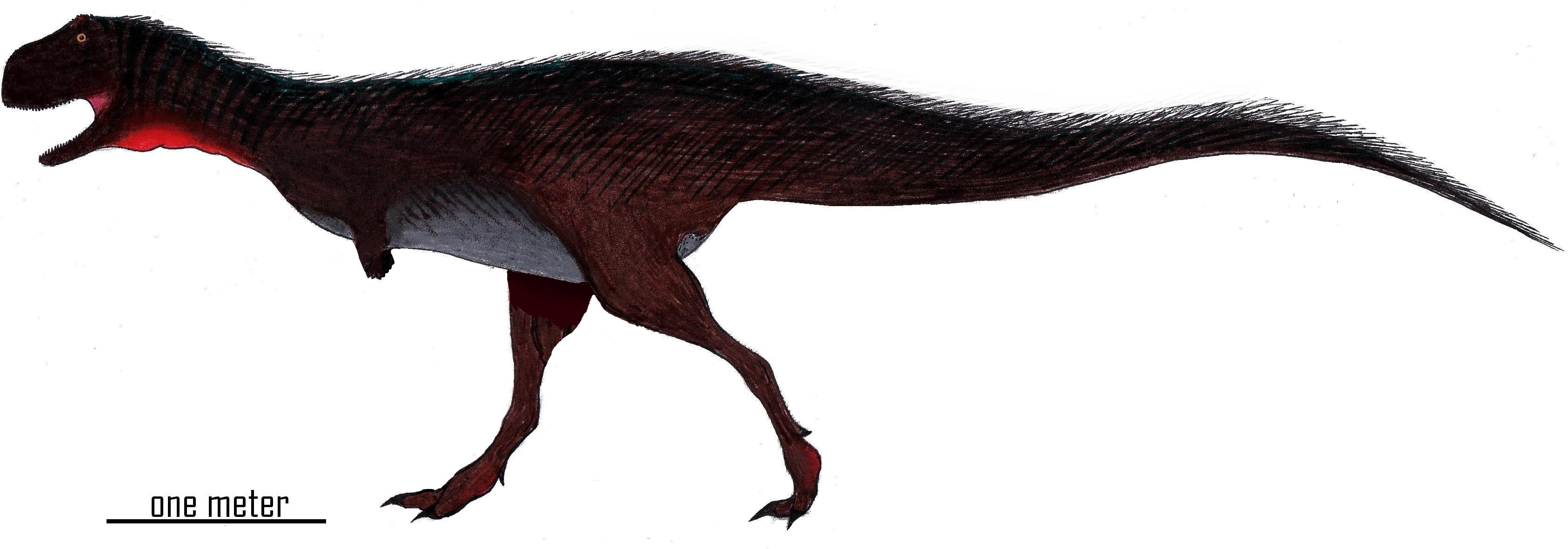 Restoration